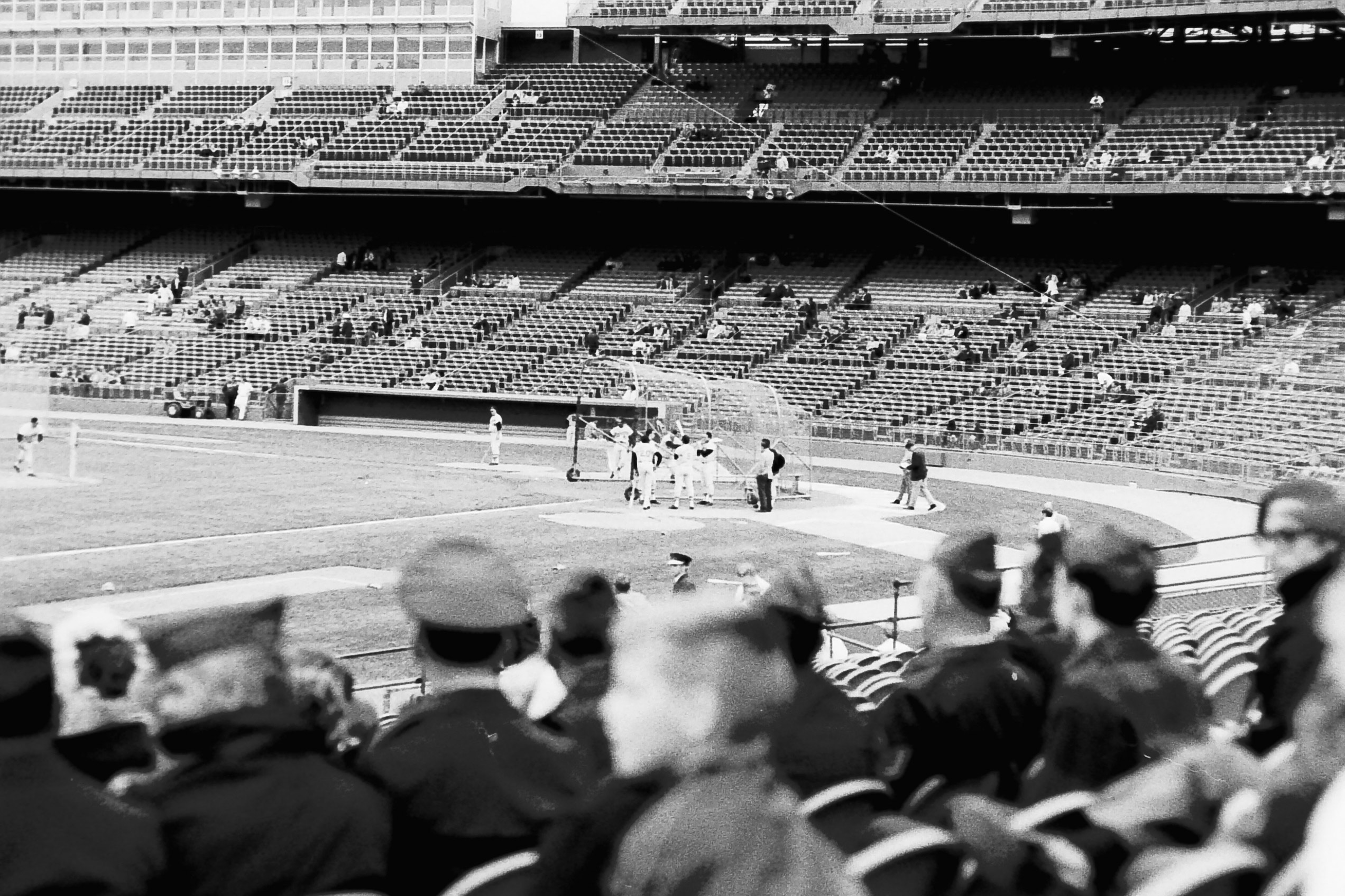 Armed Forces Day at the Twins vs. the Orioles game at Metropolitan Stadium, Minneapolis, , Minn. Photo taken spring 1972 with a Minolta SRT 101 35 mm film camera. This is from a scan of the negative.